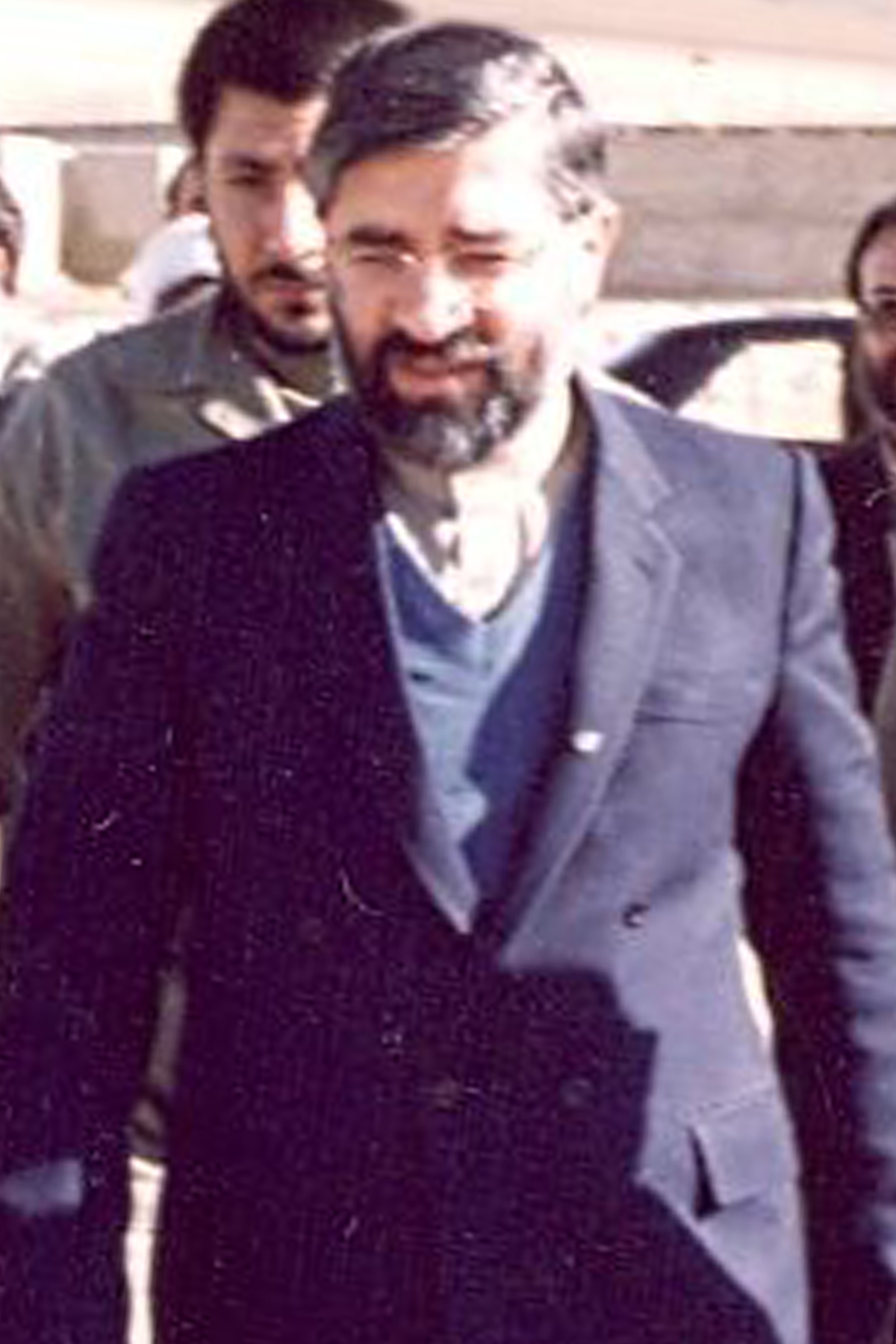 Mir-Hossein Mousavi, Iranian Prime Minister (1981–1989)